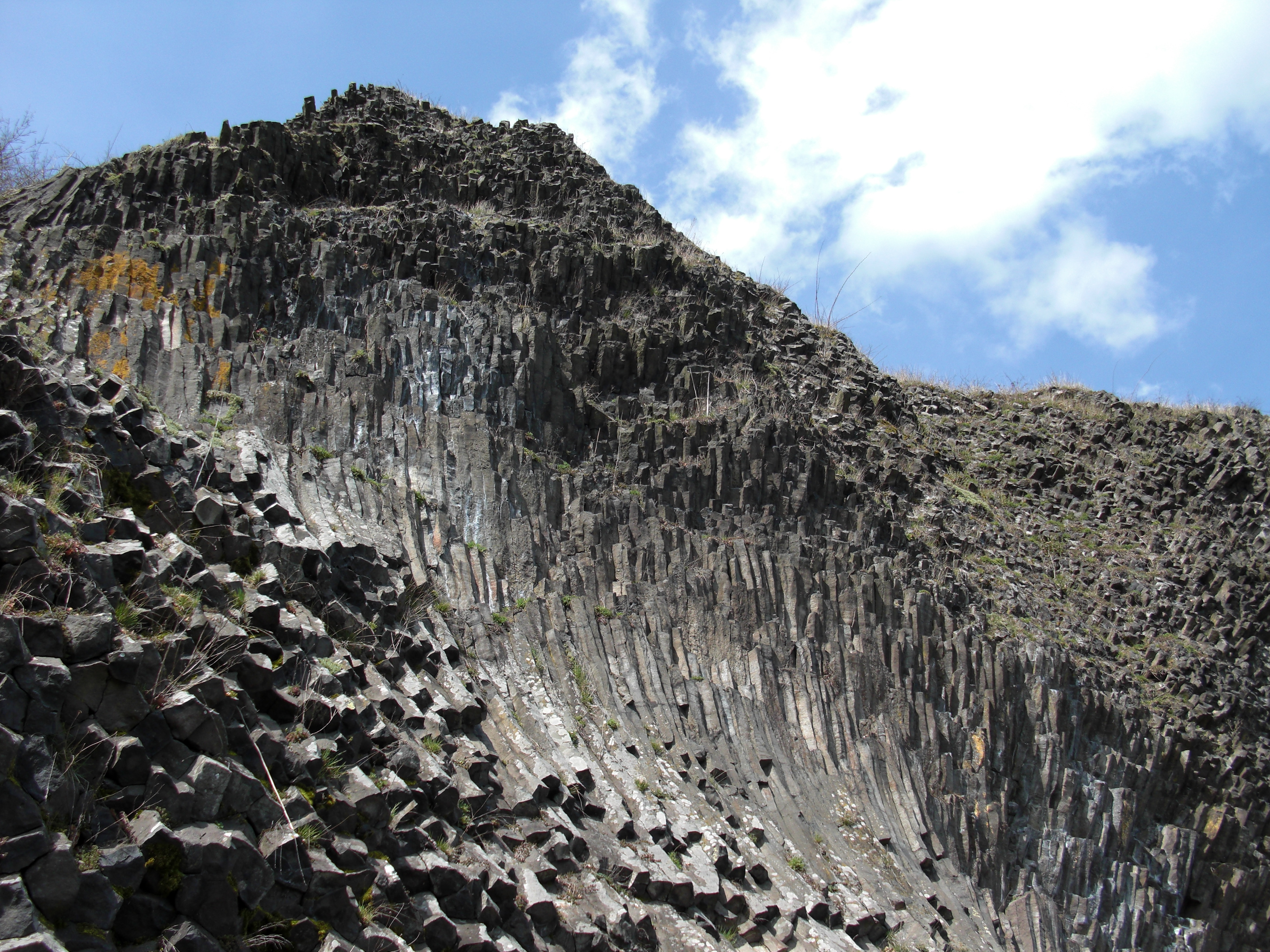 Basaltkegel Parkstein: looking from southeast, middle part